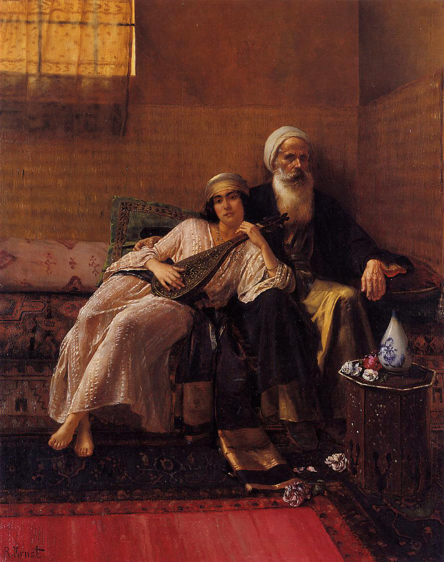 The Musician